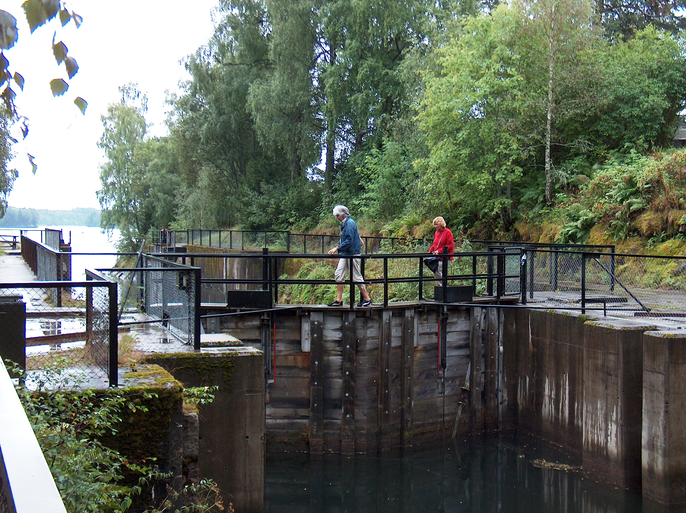 Svanfoss sluicegate in Vorma river in Norway. Photo: Svein Harkestad, Bergen in Norway